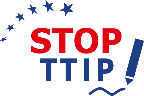 Logo of the Campaign against TTIP